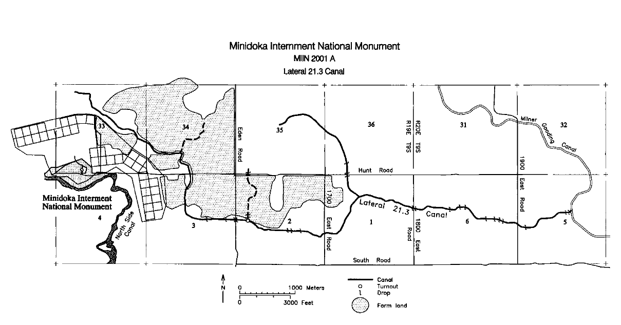 map of Minidoka War Relocation Center, Idaho, USA